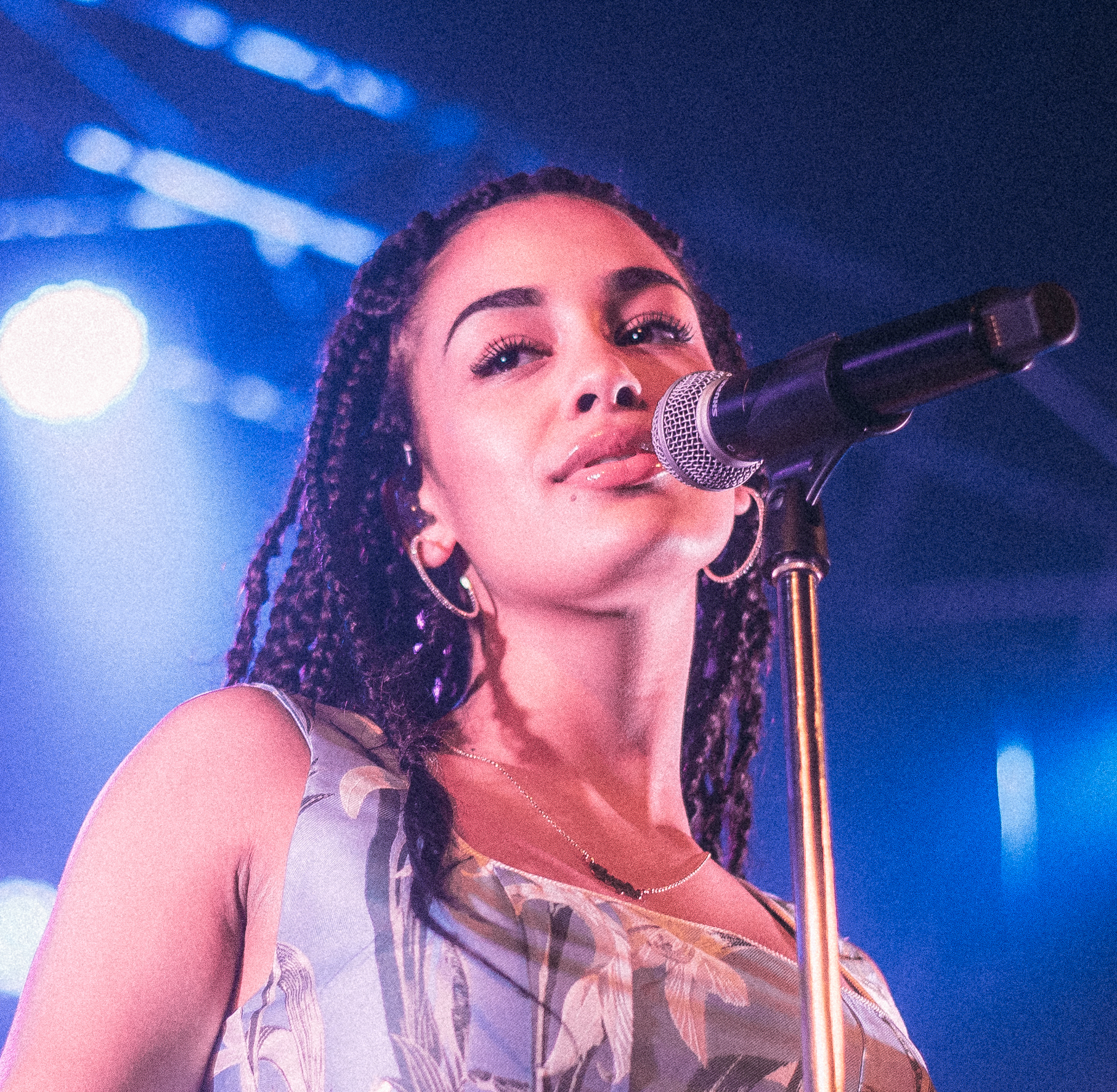 Jorja Smith at The Opera House (DSC_5957)